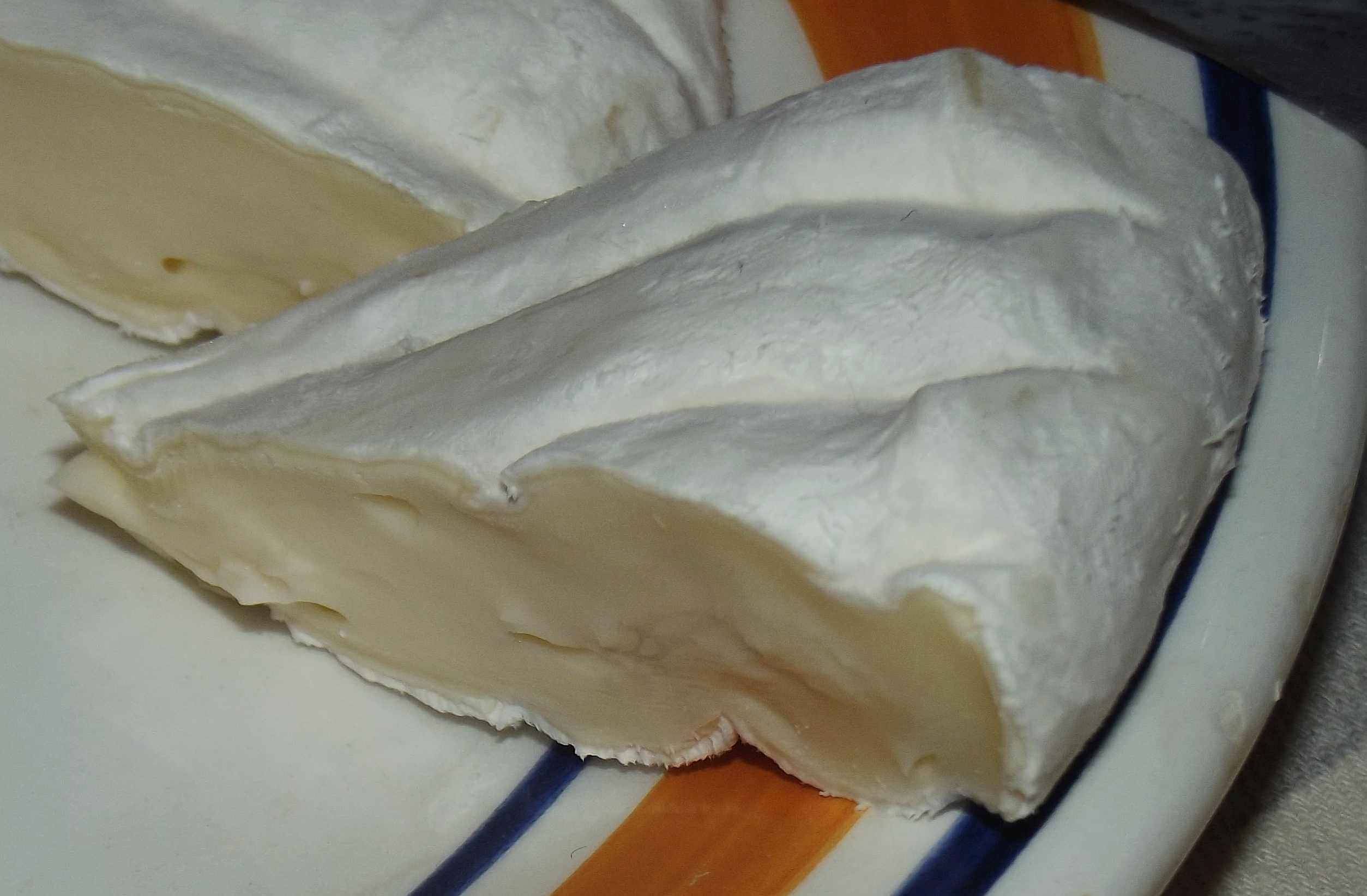 Paglierina (traditional cheese of Piedmont): a slice